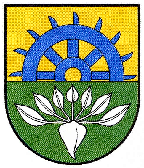 Coat of Arms of Frellstedt